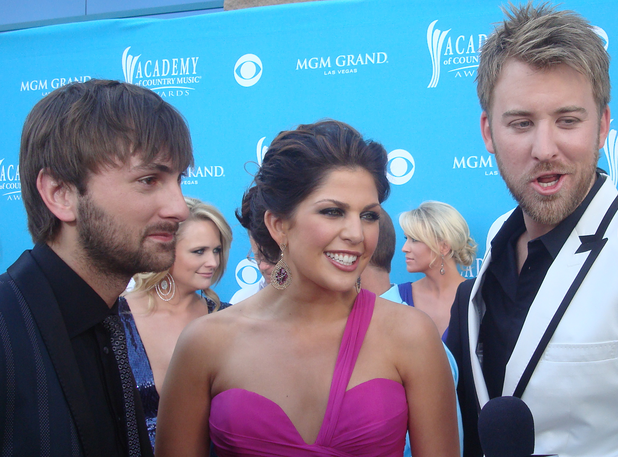 Lady Antebellum (Dave Haywood, Hillary Scott and Charles Kelley) at the 45th Annual Academy of Country Music Awards.